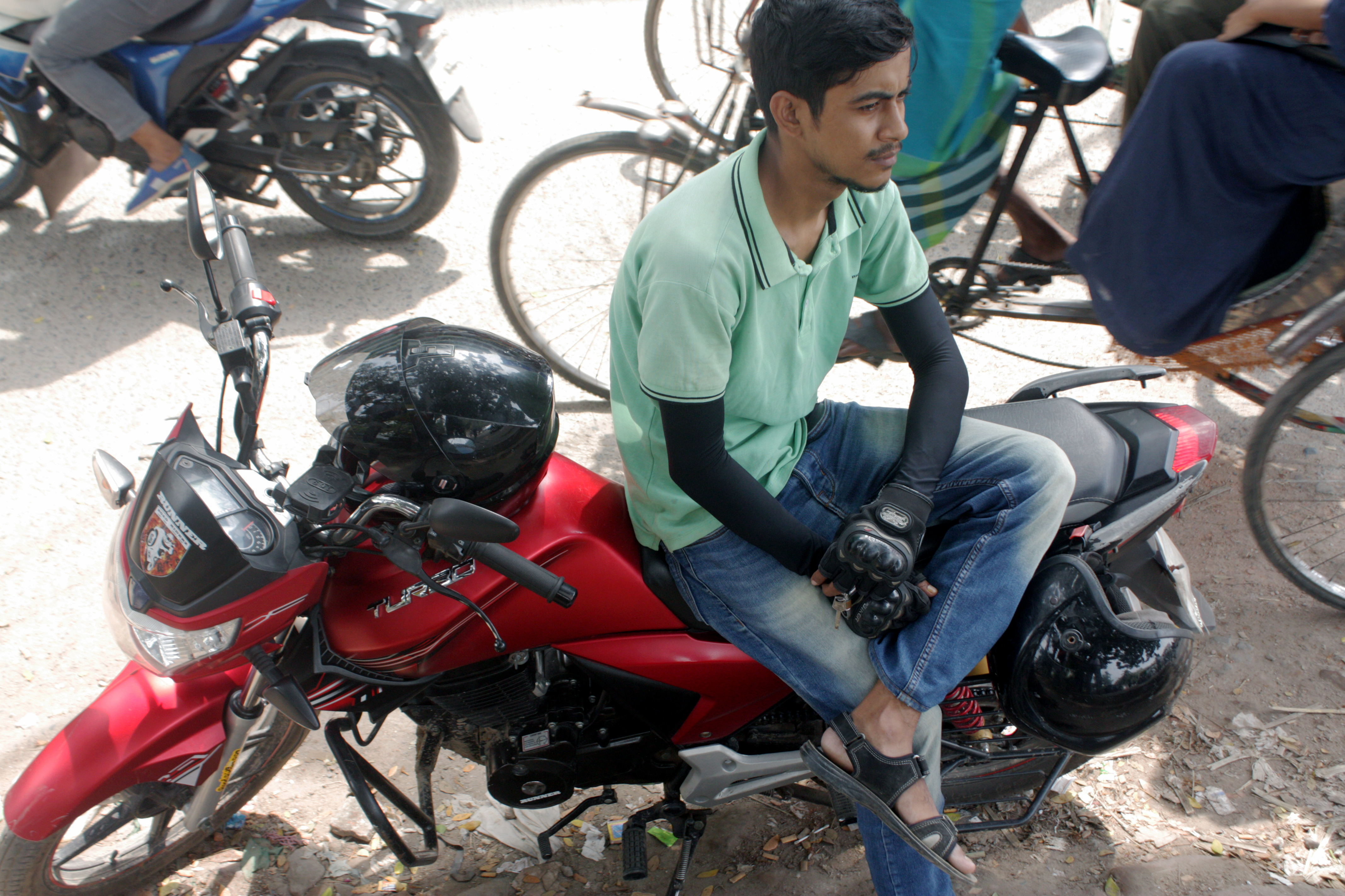 App-based motorbike ride-sharing waiting for customer in Dhaka, Bangladesh. Uber, Pathao, MUV, SAM, Shohoz Rides Bike-sharing services in Dhaka, waiting for passenger. Motorcycle Ridesharing is beginning to popular in Dhaka.